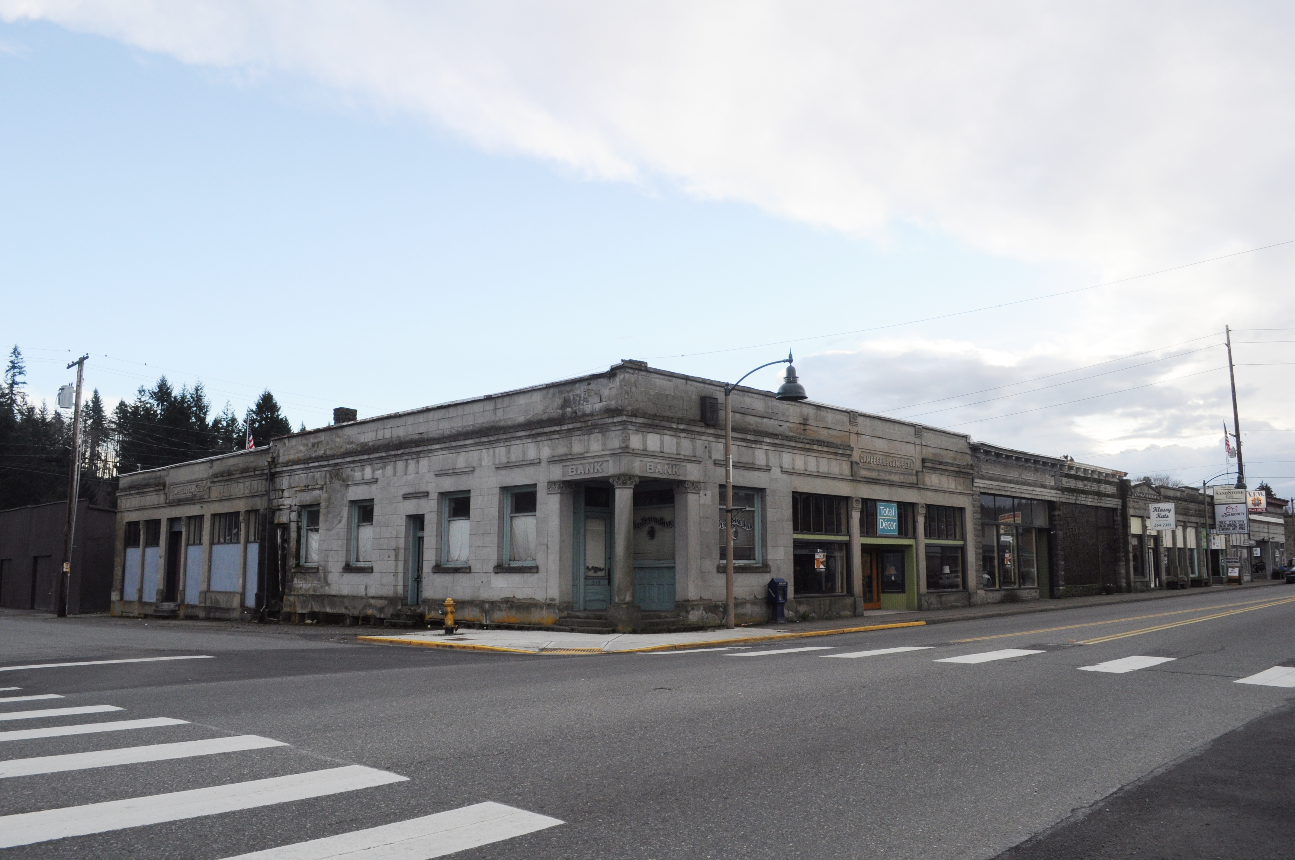 Tenino, Washington. Left to right (using historical names of the buildings), The State Bank of Tenino on the corner is actually nestled into the L-shaped Campbell & Campbell Building; except for its façade the Mentzner & Coping Block was gutted by fire in 1983; only one of the two storefronts has been rebuilt. The Miller Block (three storefronts, one with a distinct capital). The VFW Hall/Liberty Theater. Unidentified building on corner.The bank building served as the city hall from 1939 to 1947.